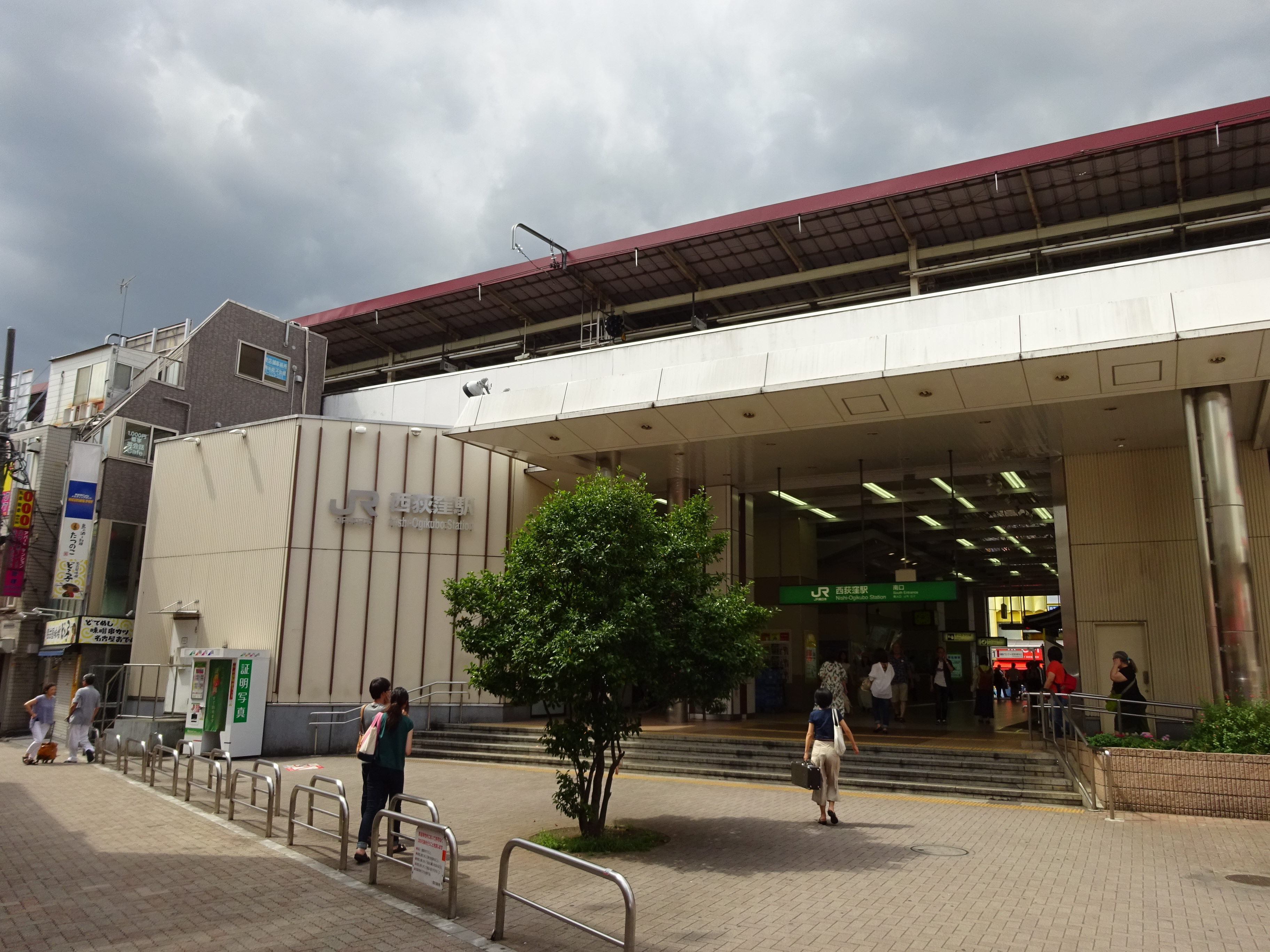 South entrance of Nishi-Ogikubo Station